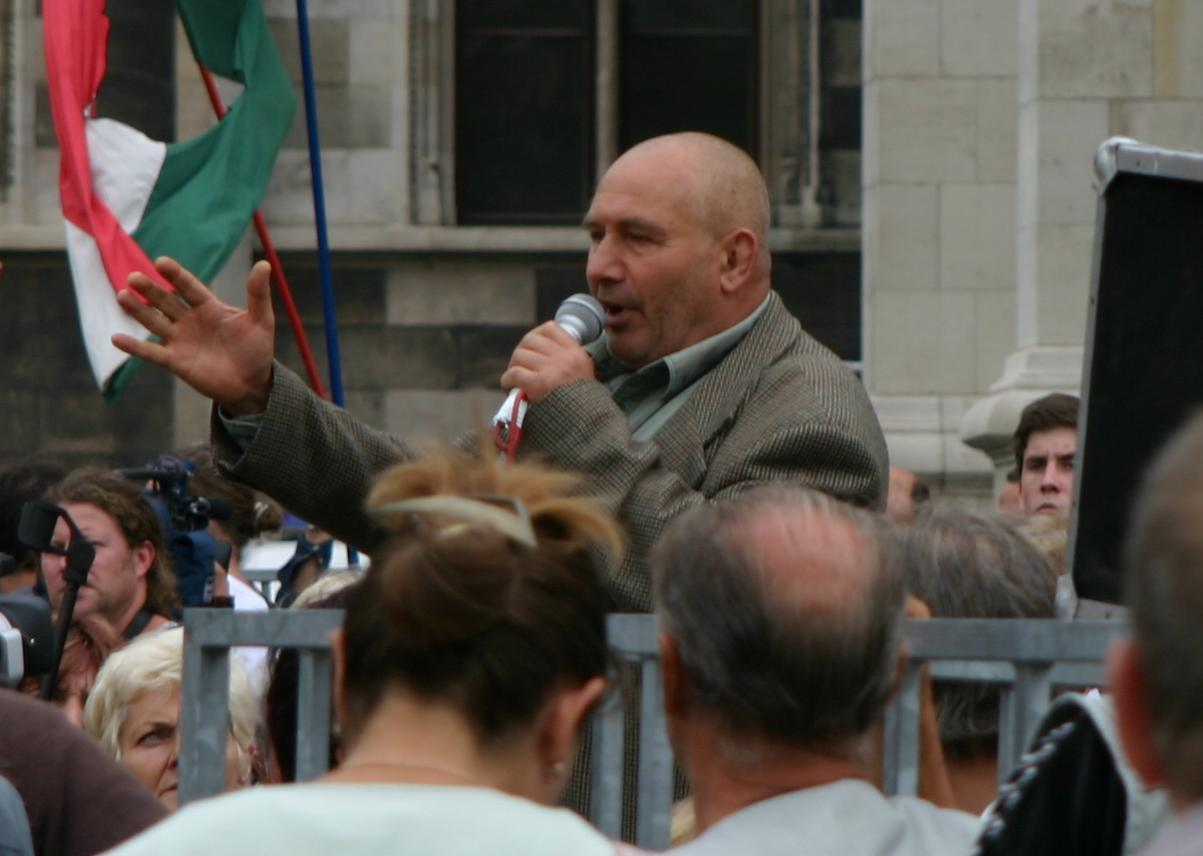 György Ekrem-Kemál speaking to protestors at an anti-government demonstration on Kossuth square, Budapest